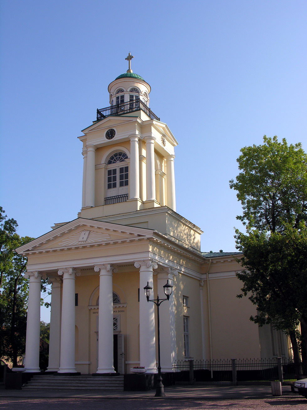 Evaghelic Luteran Church in Ventspils. Latvia